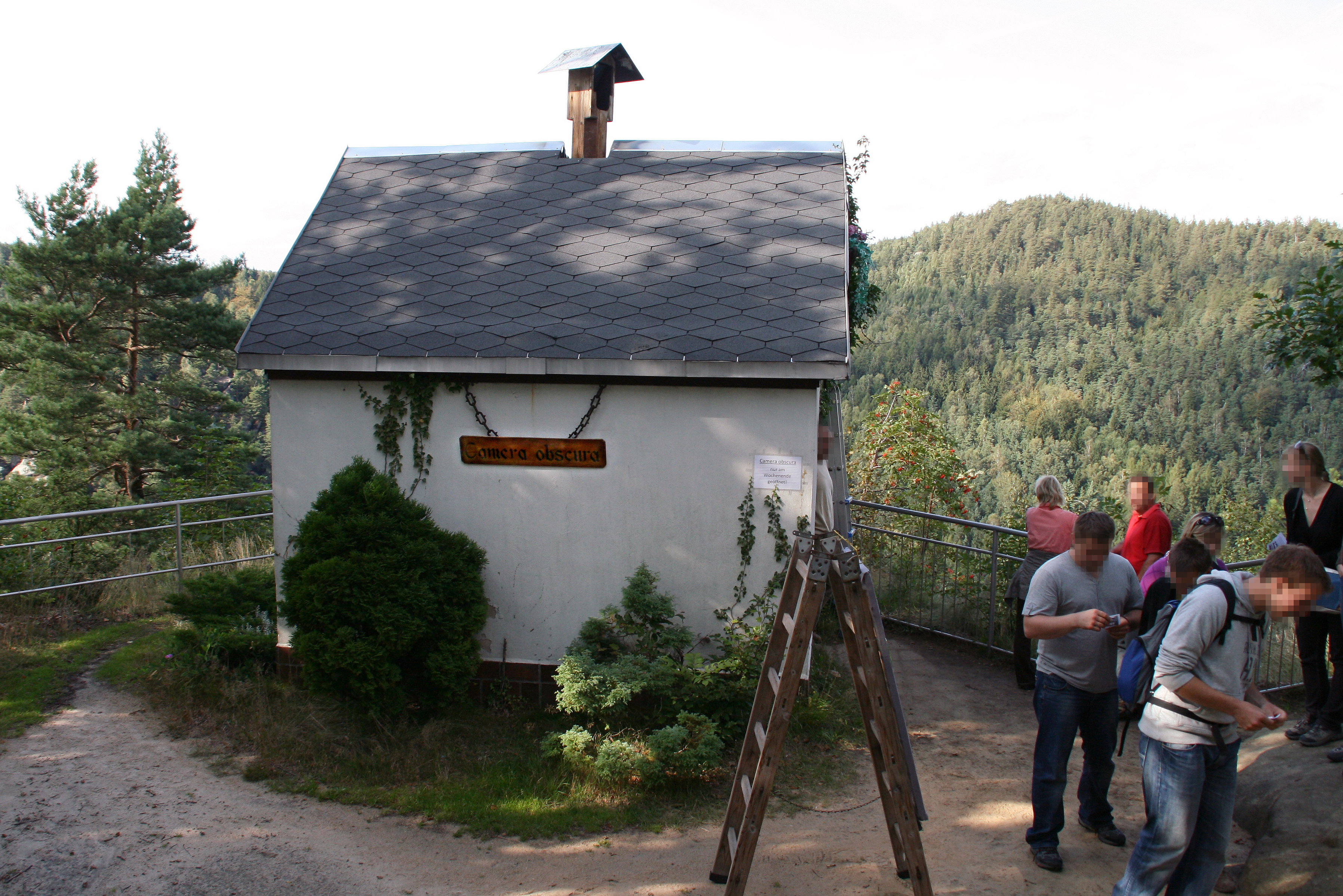 Oybin, Camera Obscura